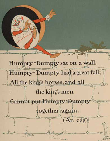 Humpty Dumpty 1 - Illustration by William Wallace Denslow